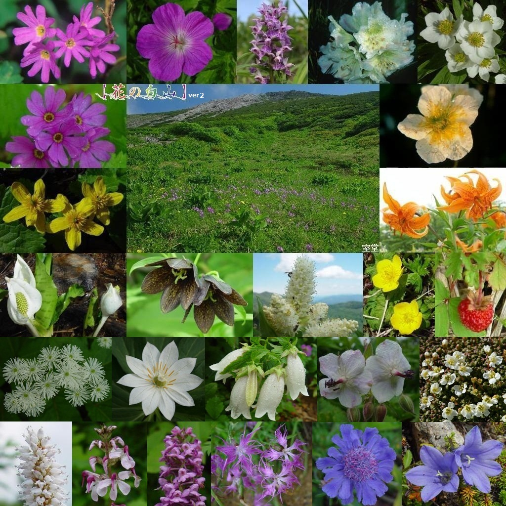 Flowers_in Mount Haku 2009_6_25etc